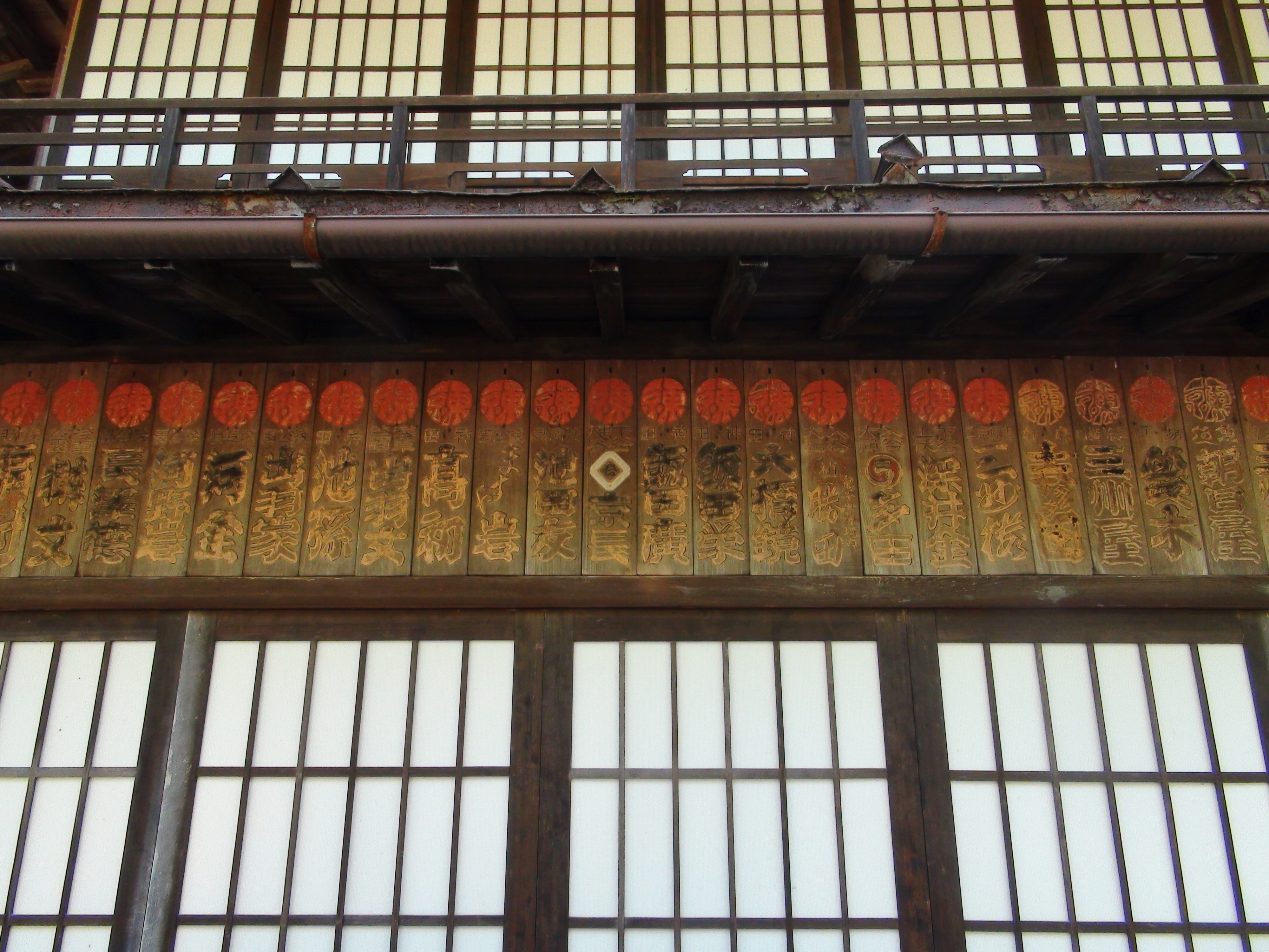 Traditional welcome signboard of the old accommodations in Akasawa